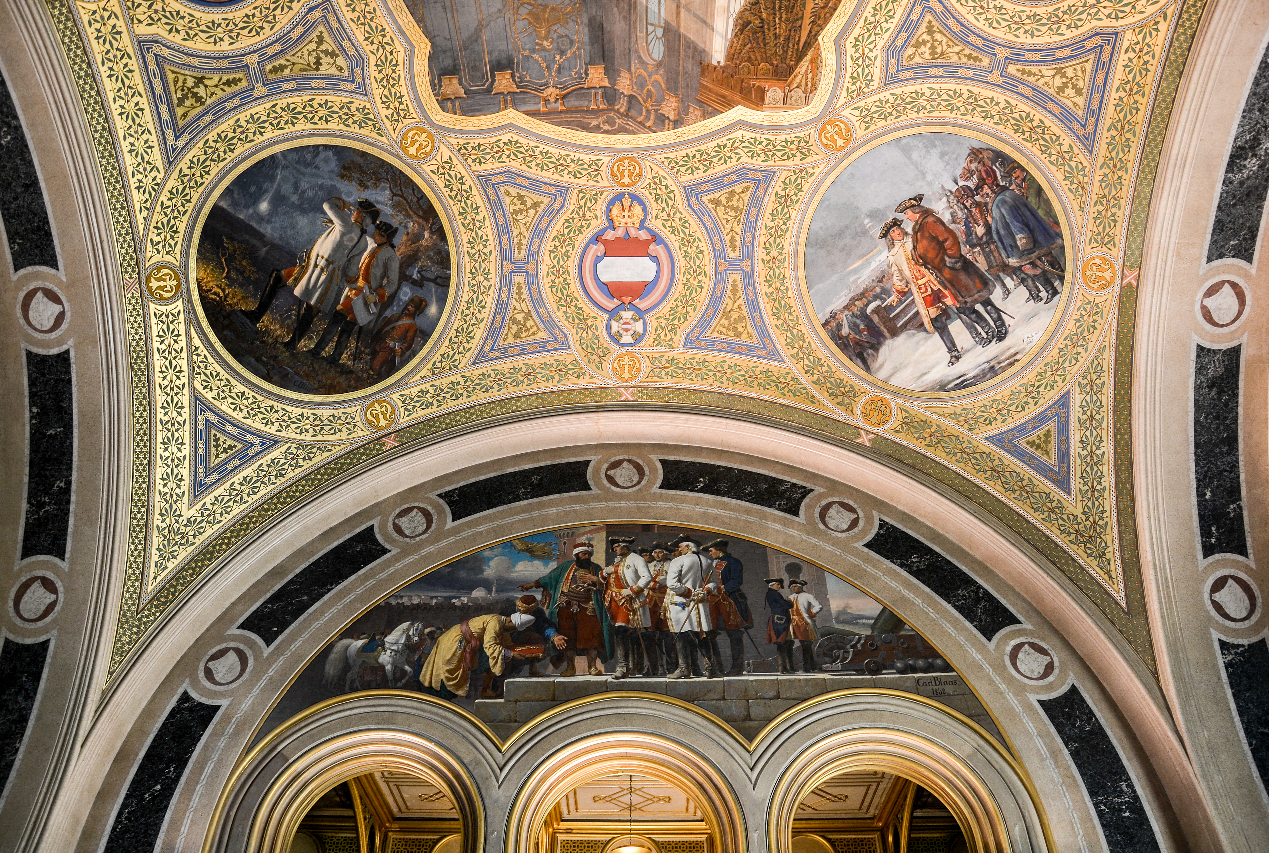 Ruhmeshalle, Heeresgeschichtliches Museum in Vienna, Austria